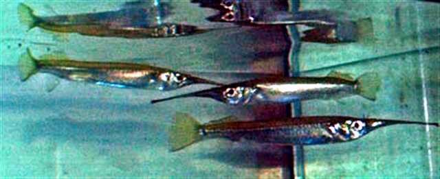 Aquarium specimens of Zenarchopterus dunckeri photographed in Taiwan.